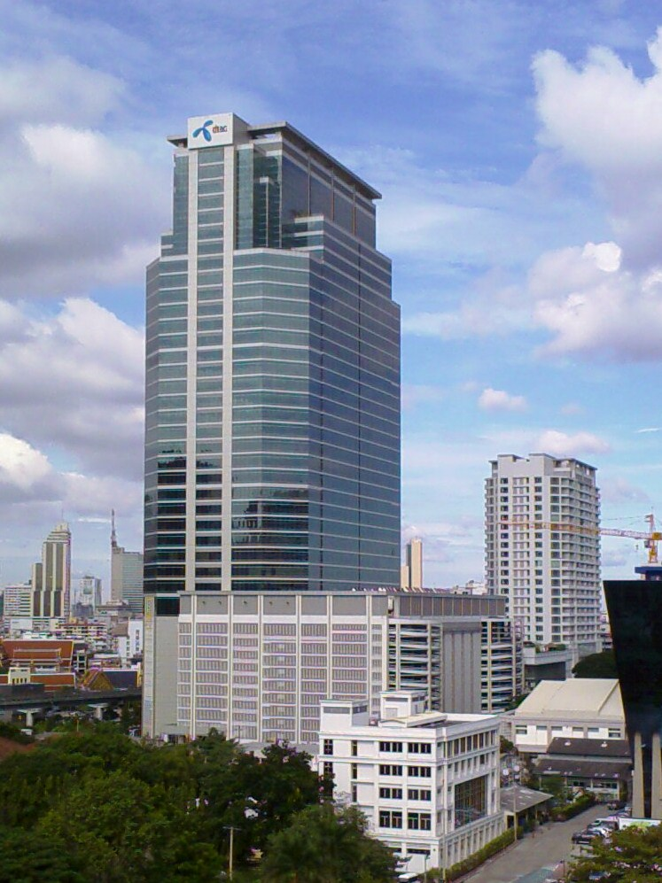 Chamchuri Office Tower (left, front) and Residence Tower (right, to the back) of the Chamchuri Square complex in Bangkok, Thailand